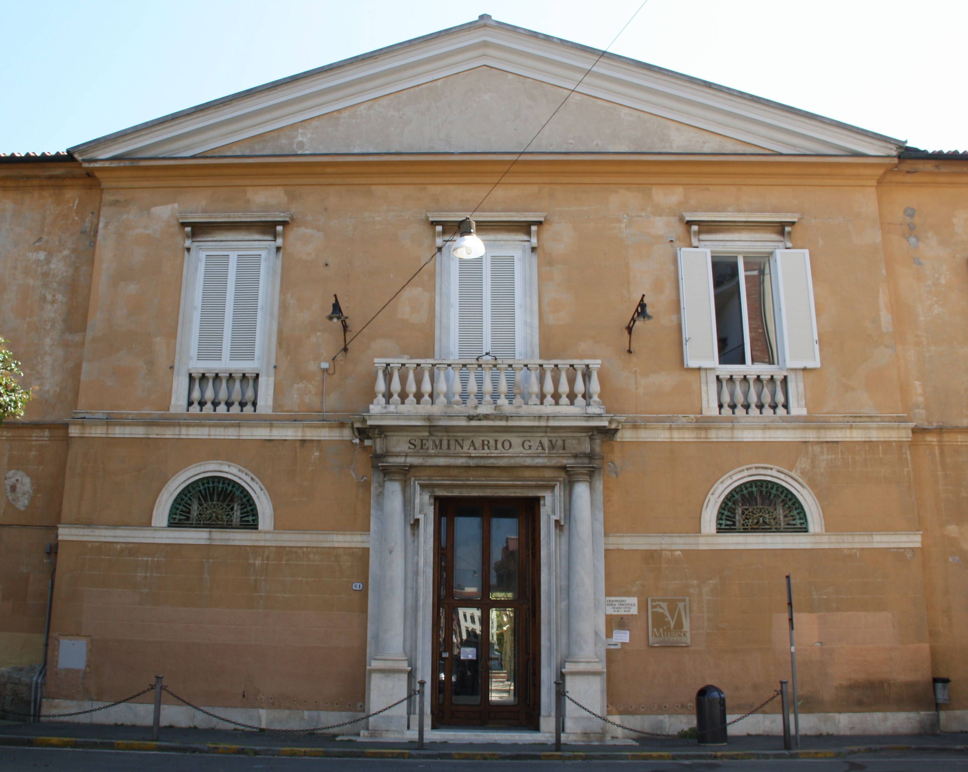 Italy, Livorno, Via del Seminario. The Seminary Girolamo Gavi front.